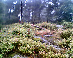 Summit of Zámky in Jizera Mountains